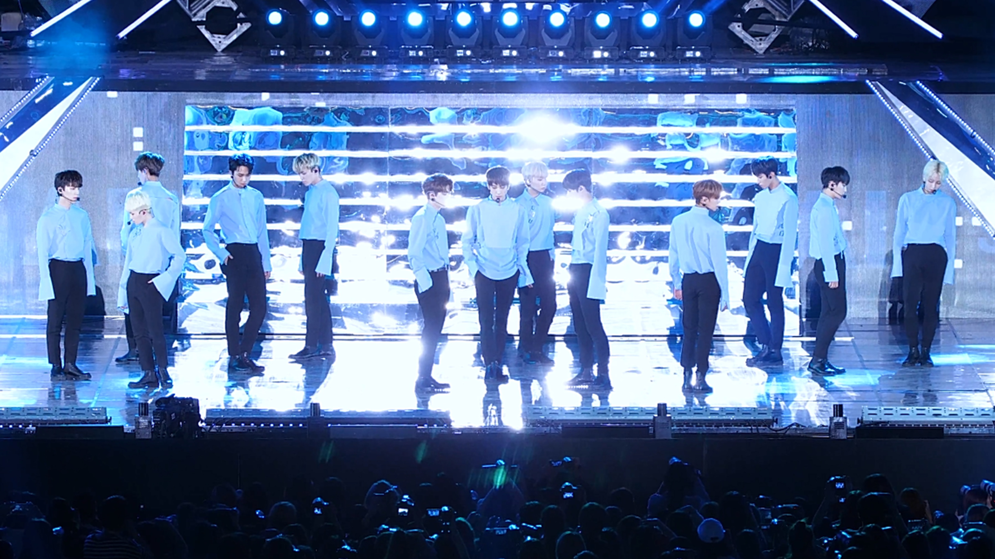 Seventeen performing "Don't Wanna Cry" during the Dream Concert on June 3, 2017.